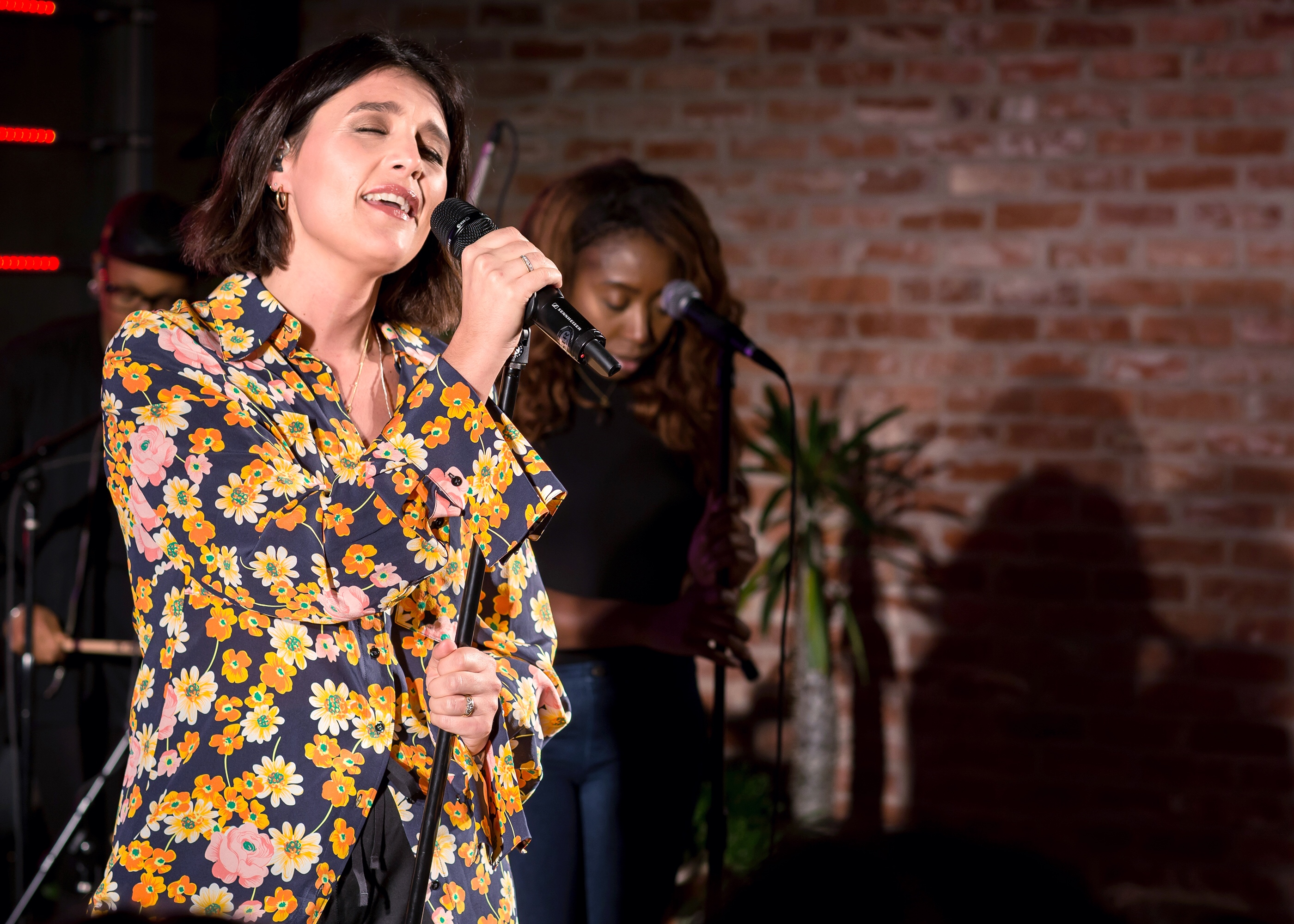 Jessie Ware performing live at Space 15 Twenty in Hollywood, Los Angeles, California, on Sunday, November 5, 2017.